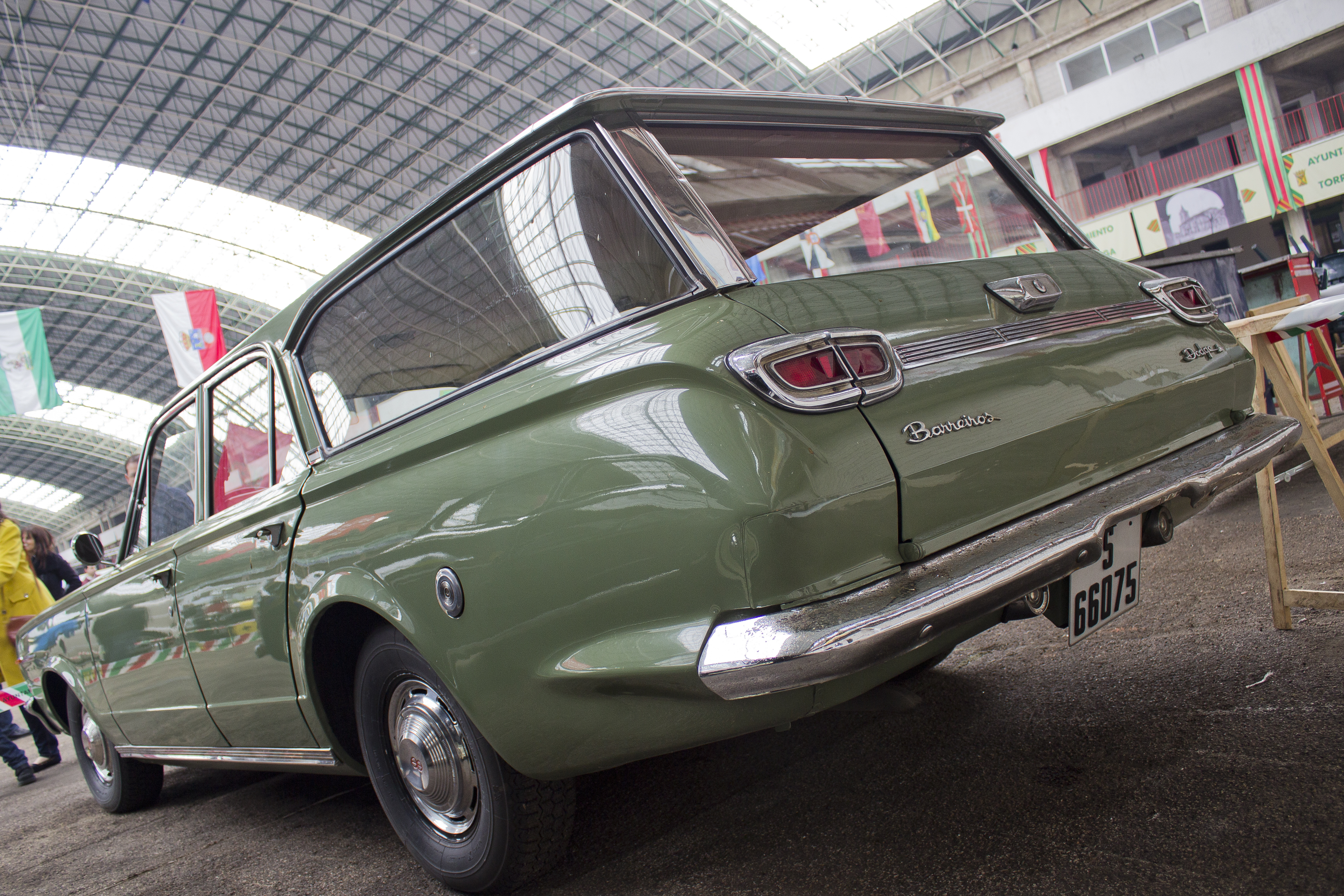 At long last I stumbled upon this unit I'd known for ages but never was lucky enough to see. The Spanish Dart Familiar (or station wagon for that matter) is an extremely rare car to find nowadays. I was happy to finally find this one that's local to me.